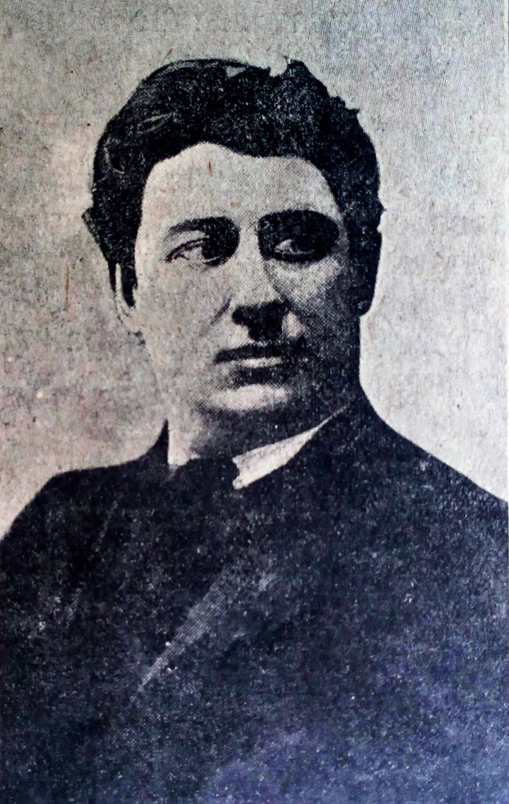 A photograph of Luka Popović (1878-1914), Serbian actor, singer and director. Taken from the 1912 edition of the illustrated calendar Rad. Srpski (latinica): Fotografija Luke Popovića (1878-1914), srpski glumac, pevač i reditelj. Preuzeto iz izdanja ilustrovanog kalendara Rad za 1912. godinu.